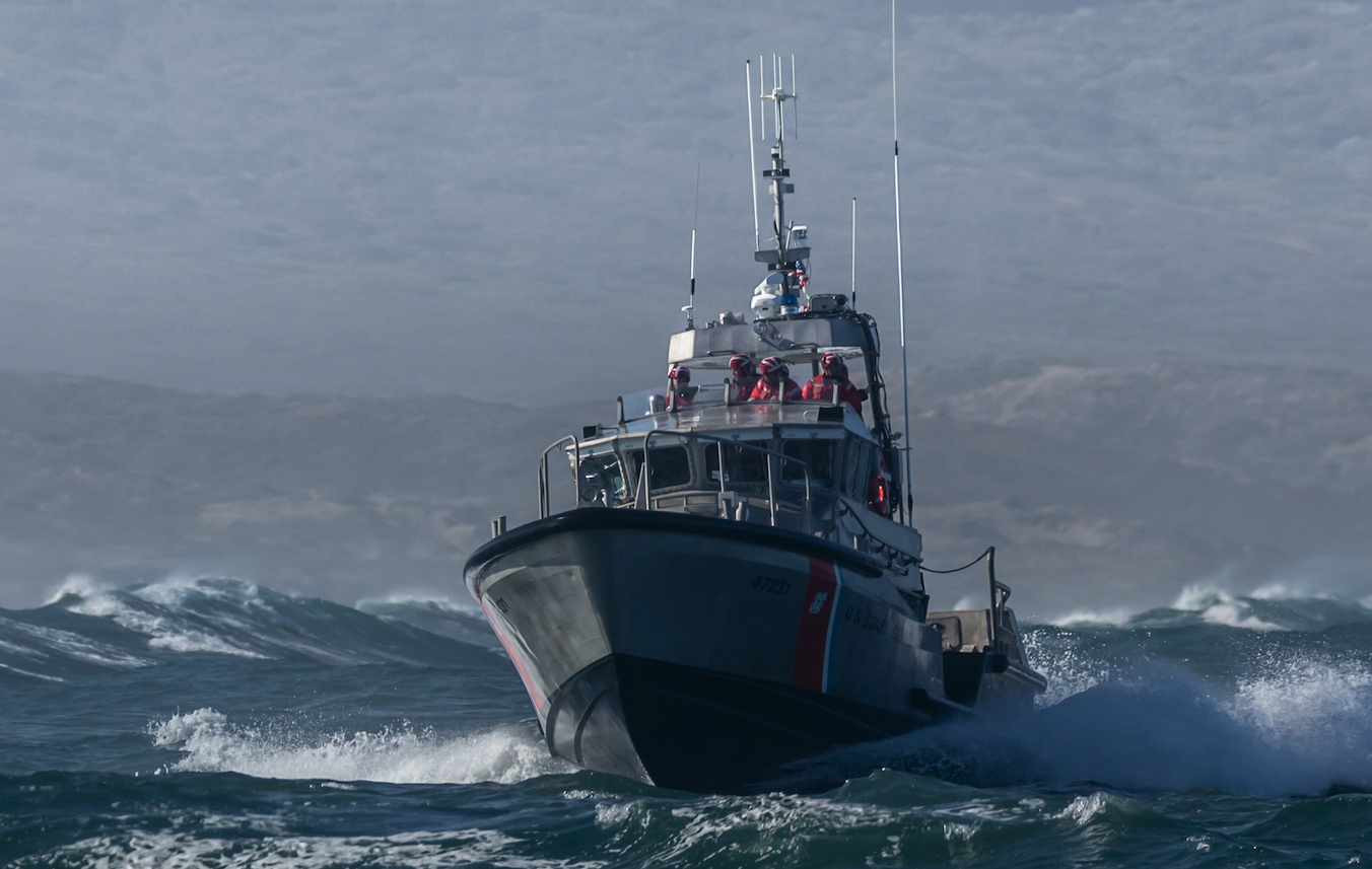 Coast Guard Motor Lifeboat in the surf.